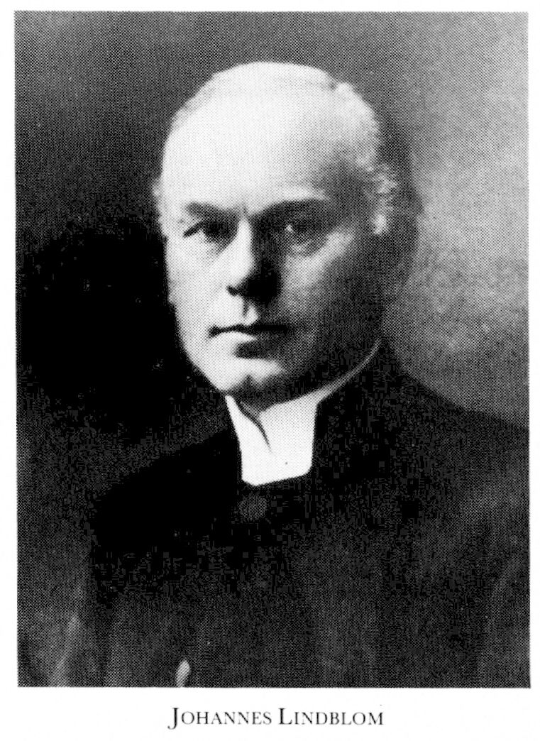 Swedish theologist and headmaster Christian Johannes Lindblom, 1882-1974